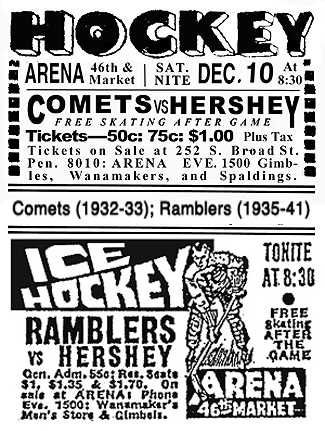 Newspaper advertisements fro professional ice hockey games at the Philadelphia Arena for games of the Philadelphia Comets (T-SHL, 1932-33) and Philadelphia Ramblers (AHL, 1938-41)